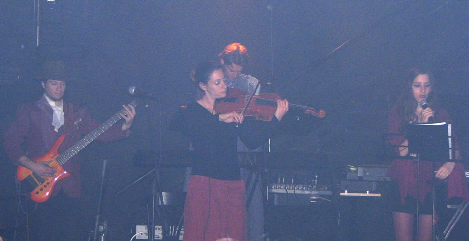 Performing at Klipa Theater, Tel-Aviv, 2005